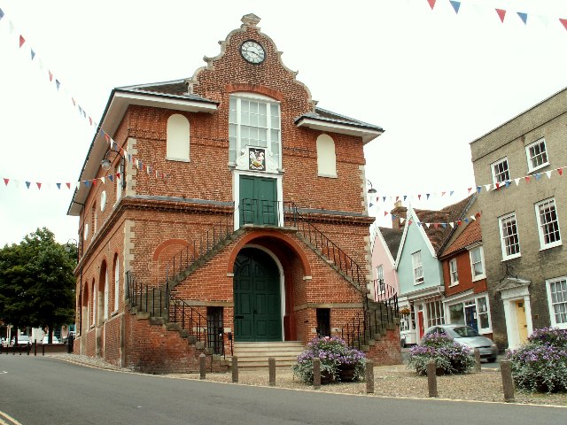 The Shire Hall in Woodbridge, Suffolk, England. A Grade I listed courthouse.